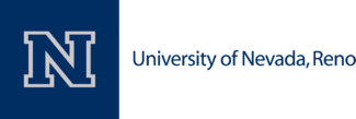 University of Nevada, Reno logo